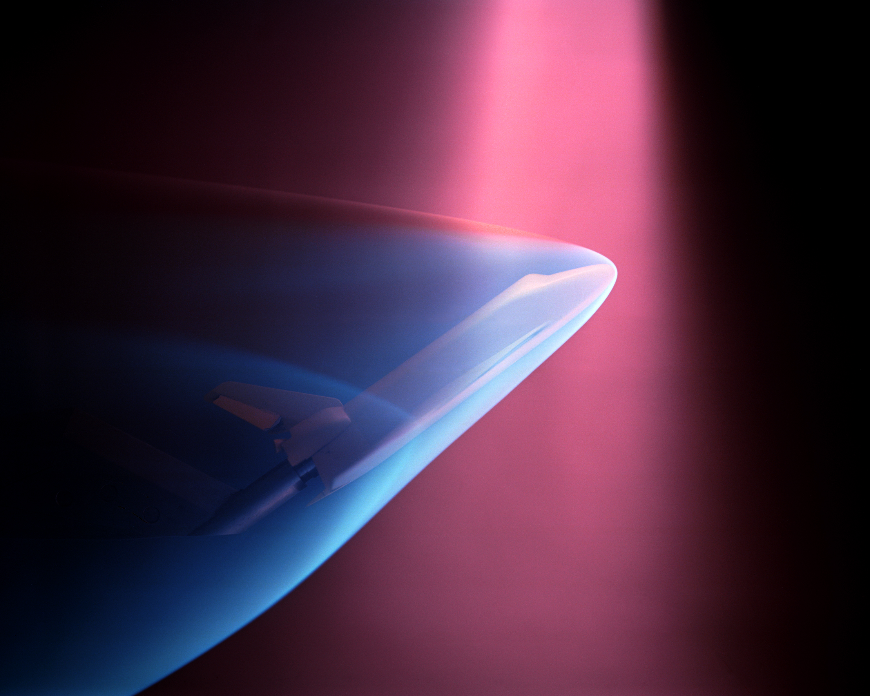 A space shuttle model undergoes a wind tunnel test in 1975. This test is simulating the ionized gases that surround a shuttle as it reenters the atmosphere.